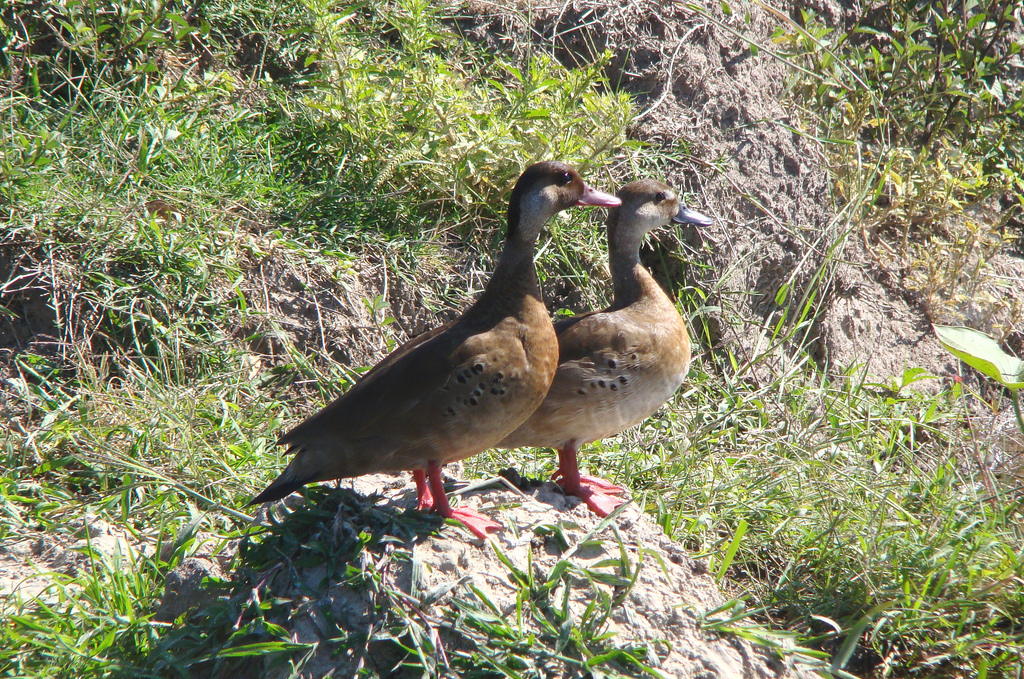 Amazonetta brasiliensis couple photographed in Tacuarembó, Uruguay, on February 2009.